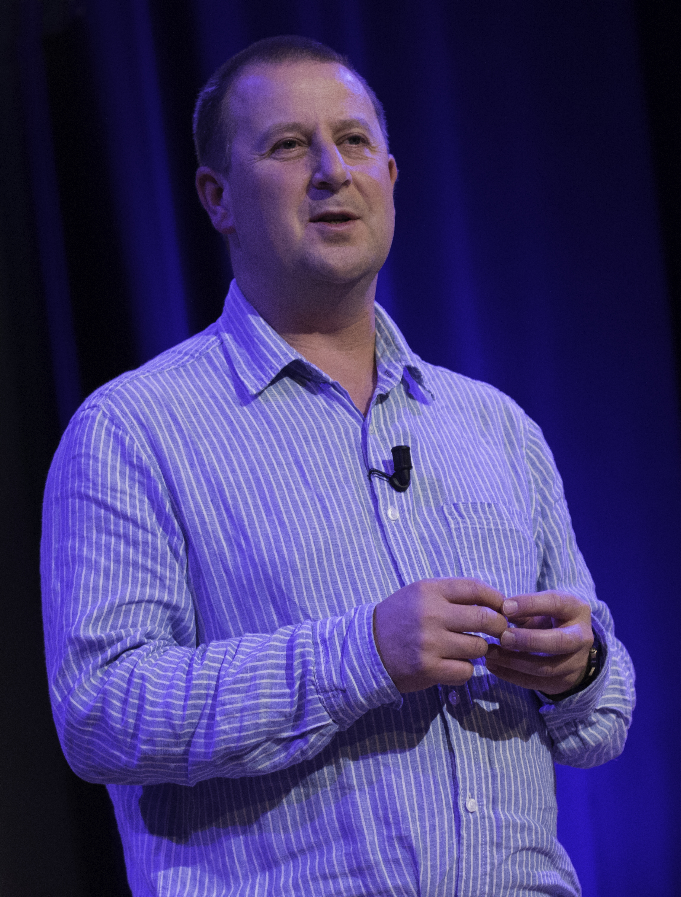 Julian Baggini at Brainwash Festival